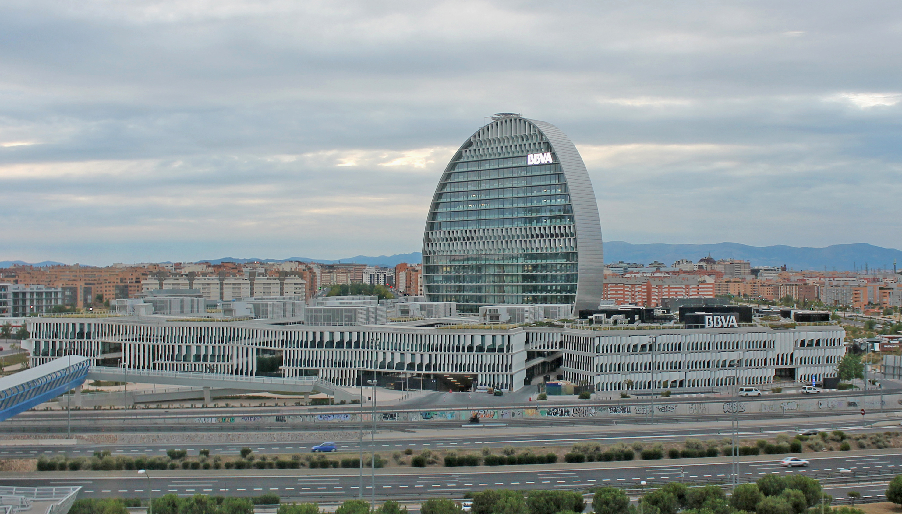 View of BBVA head offices in Madrid (Spain).